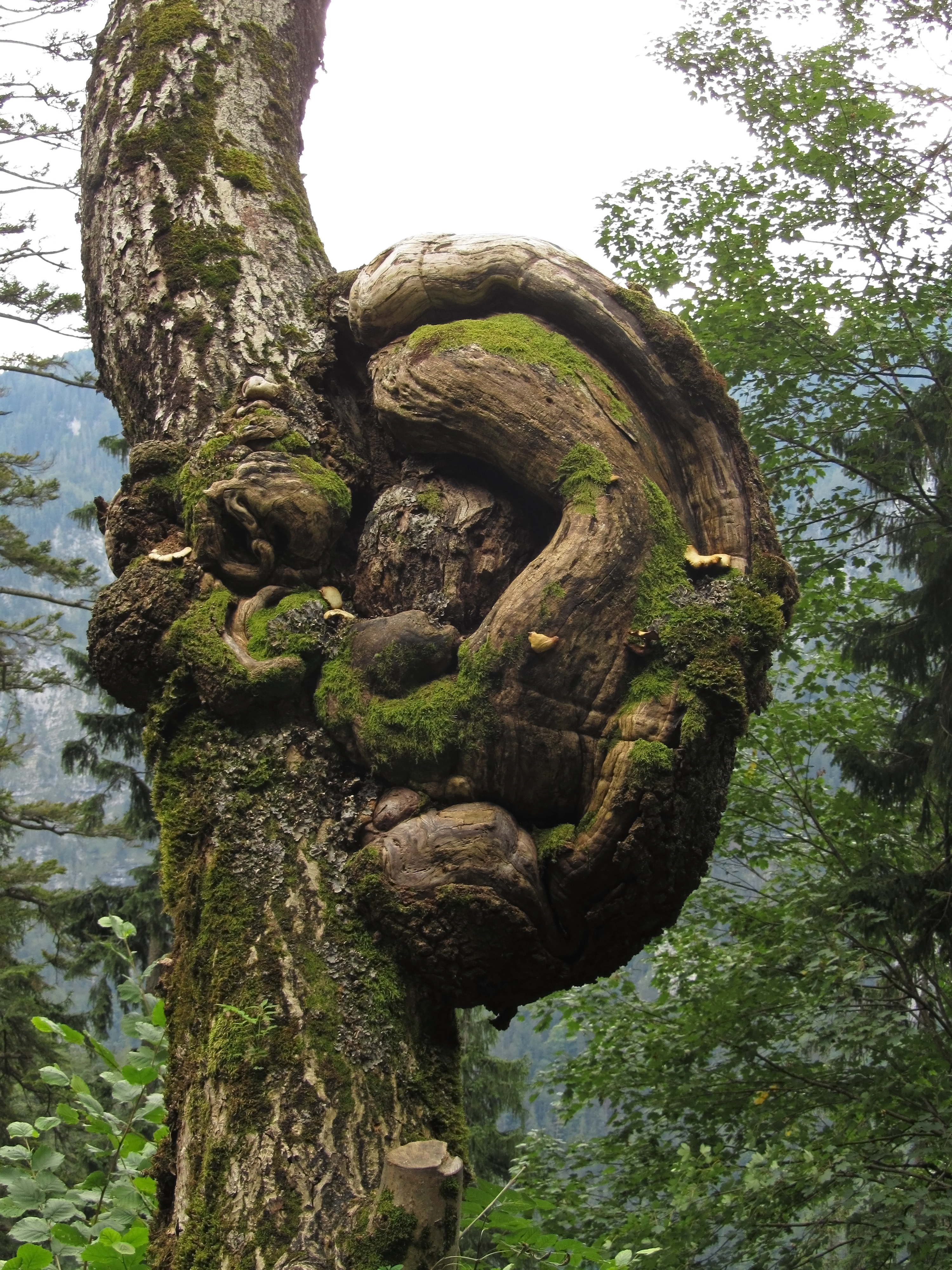 A tree with a burl on the way to the ravine Wasserlochklamm at Palfau, Styria. The burl resembles a human ear and thus this tree is called Ohrwaschlbaum (dialect for earlap tree). This media shows the natural monument in Styria with the ID 975.